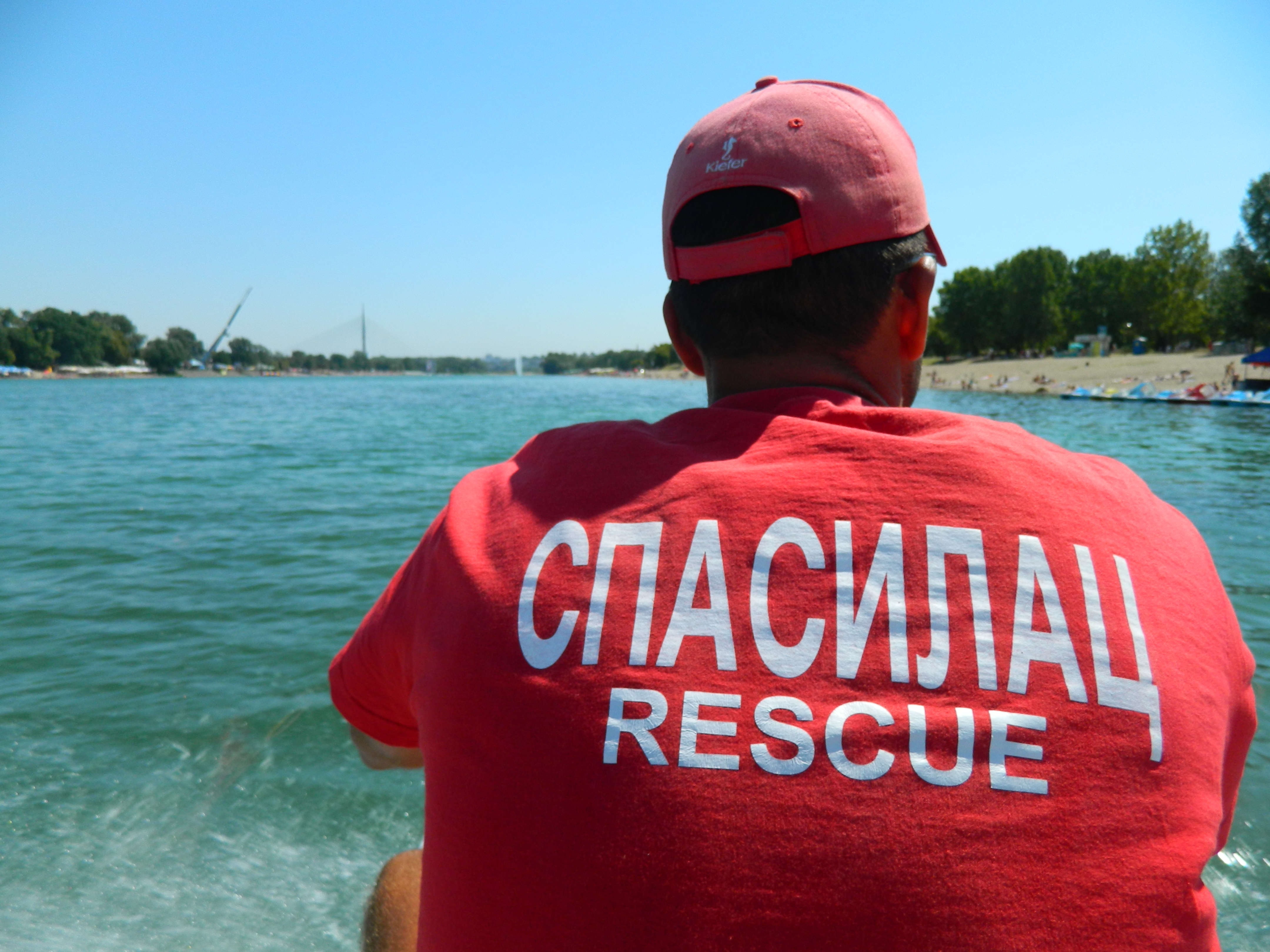 Spasilac na majici